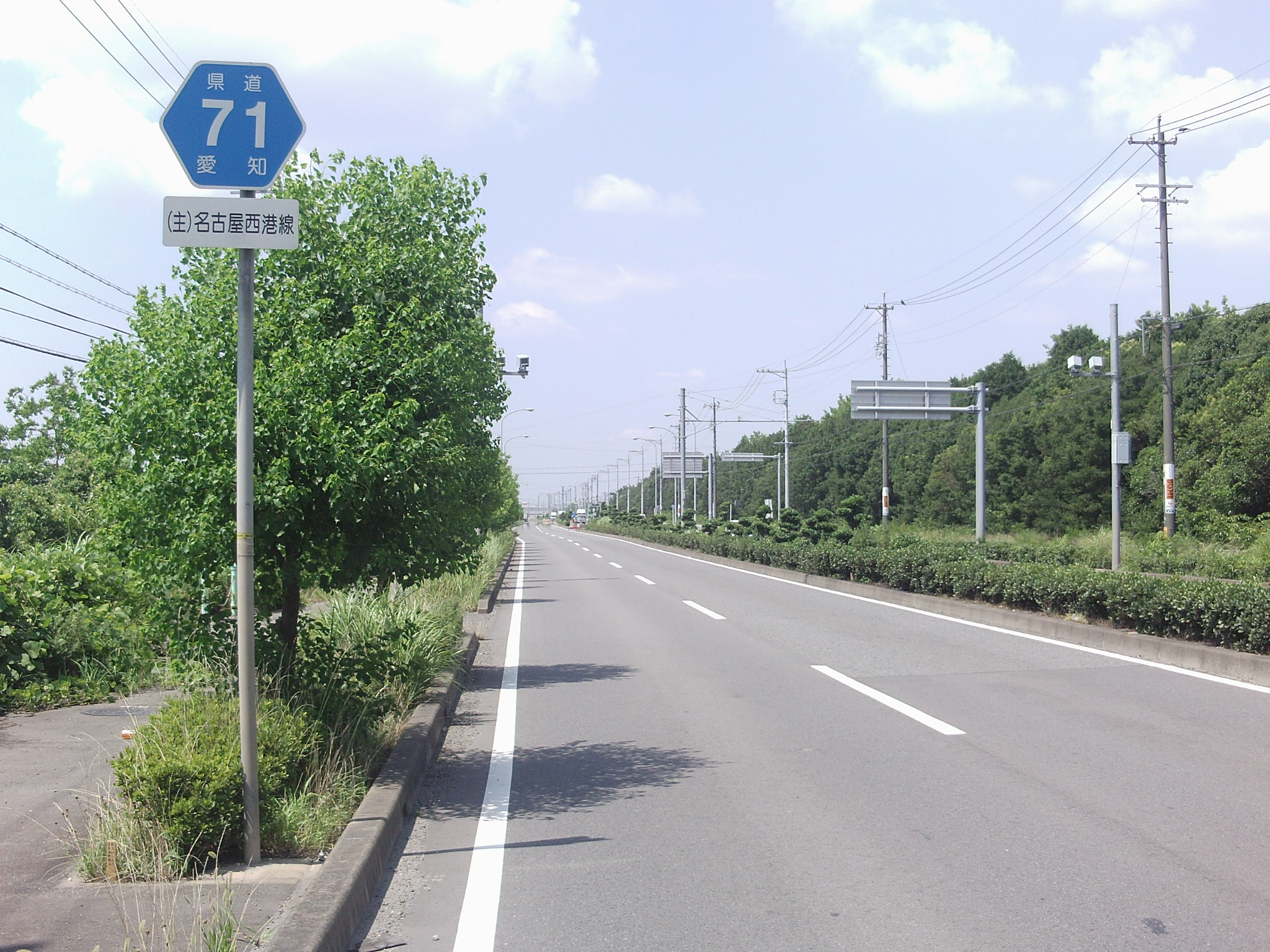 Aichi prefectural road No.71 in Komanocho, Yatomi, Aichi.